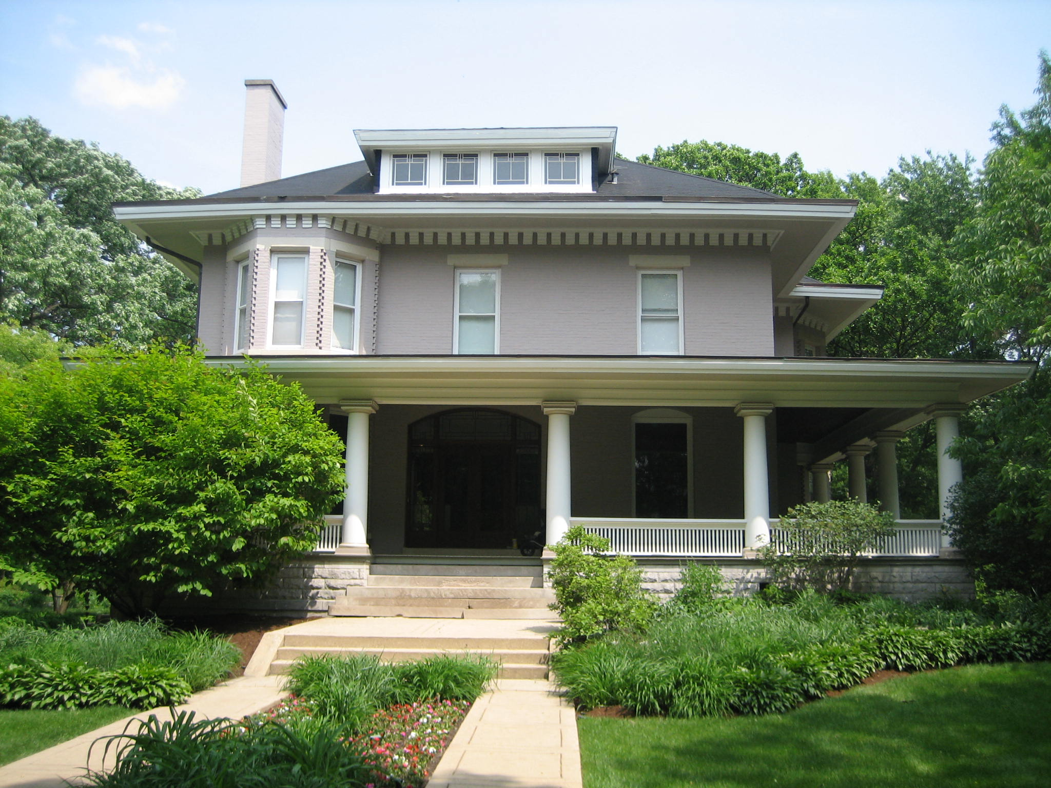 William H. Copeland House, built 1883, interior remodeled by Frank Lloyd Wright, 1909. Located in Oak Park, Illinois, United States, a Chicago suburb. Listed as a contributing property to the Frank Lloyd Wright-Prairie School of Architecture Historic District which is in turn listed on the U.S. National Register of Historic Places.